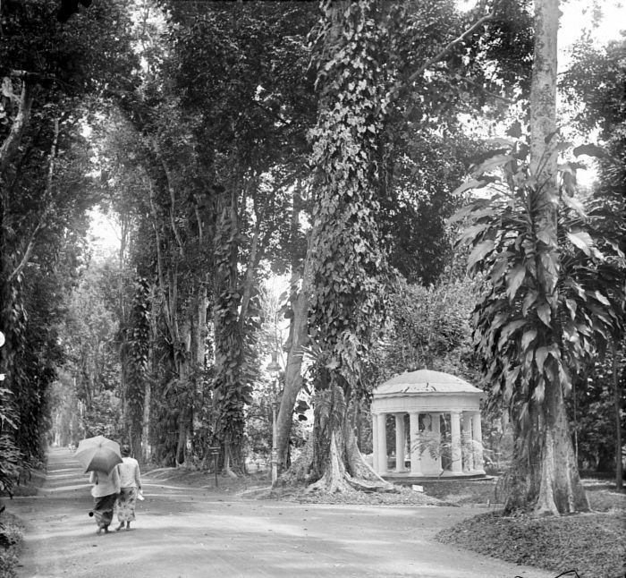 Reproduced negative. Memorial to Olivia Mariamne Fancourt (née Devenish), the first wife of Thomas Stamford Raffles, erected by him along the Kanarielaan in the National Botanical Gardens (now the Bogor Botanical Gardens) that he founded in Buitenzorg (now Bogor), West Java, Indonesia. Olivia died in Java on 26 November 1814.